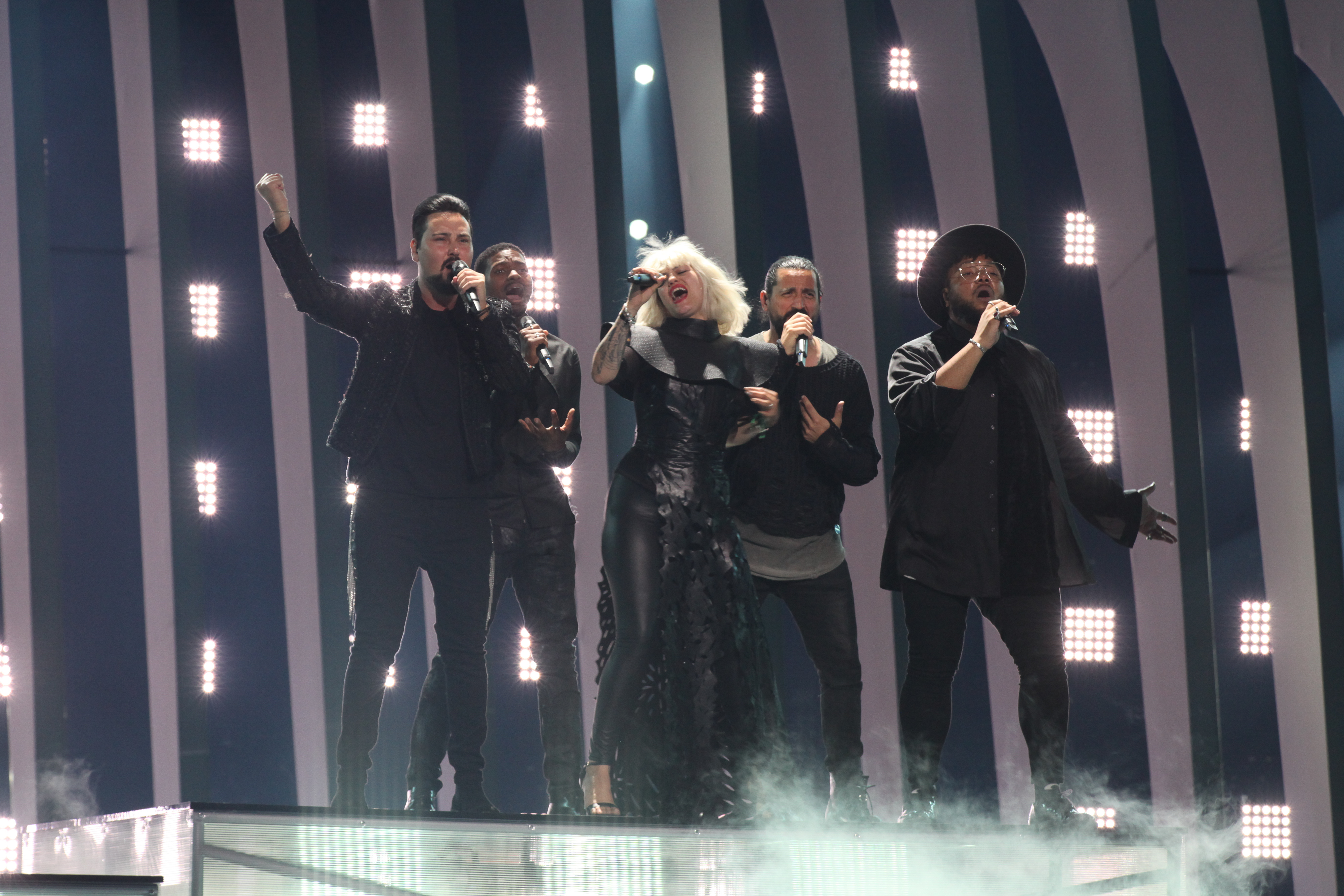 EQUINOX representing Bulgaria with the song "Bones" during a rehearsal before the grand final of the Eurovision Song Contest 2018 in Lisbon.